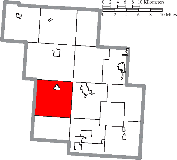 Map of the municipal and township boundaries of Perry County, Ohio, United States, as of the 2000 census, with the location of Jackson Township highlighted. Township borders are shown only in unincorporated areas in order to differentiate incorporated and unincorporated areas more clearly.